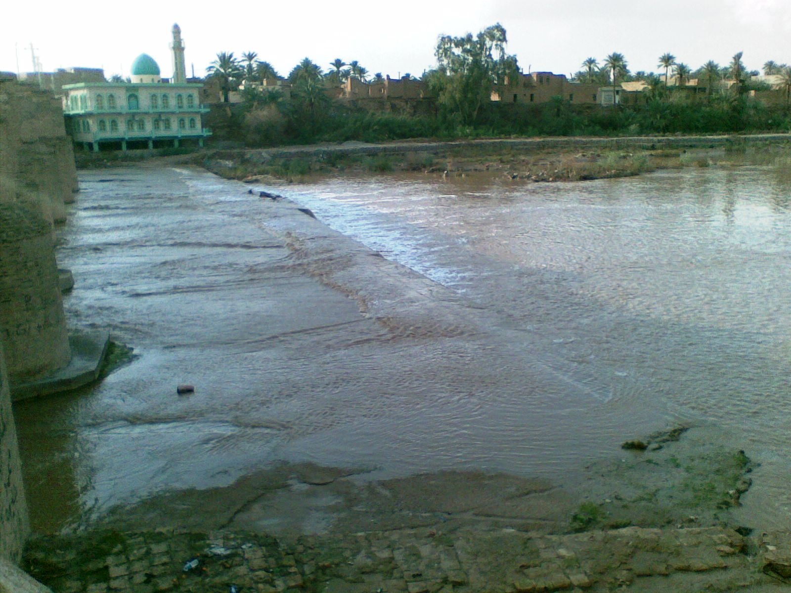 The Alwan bridge and the river, winter of 2009.